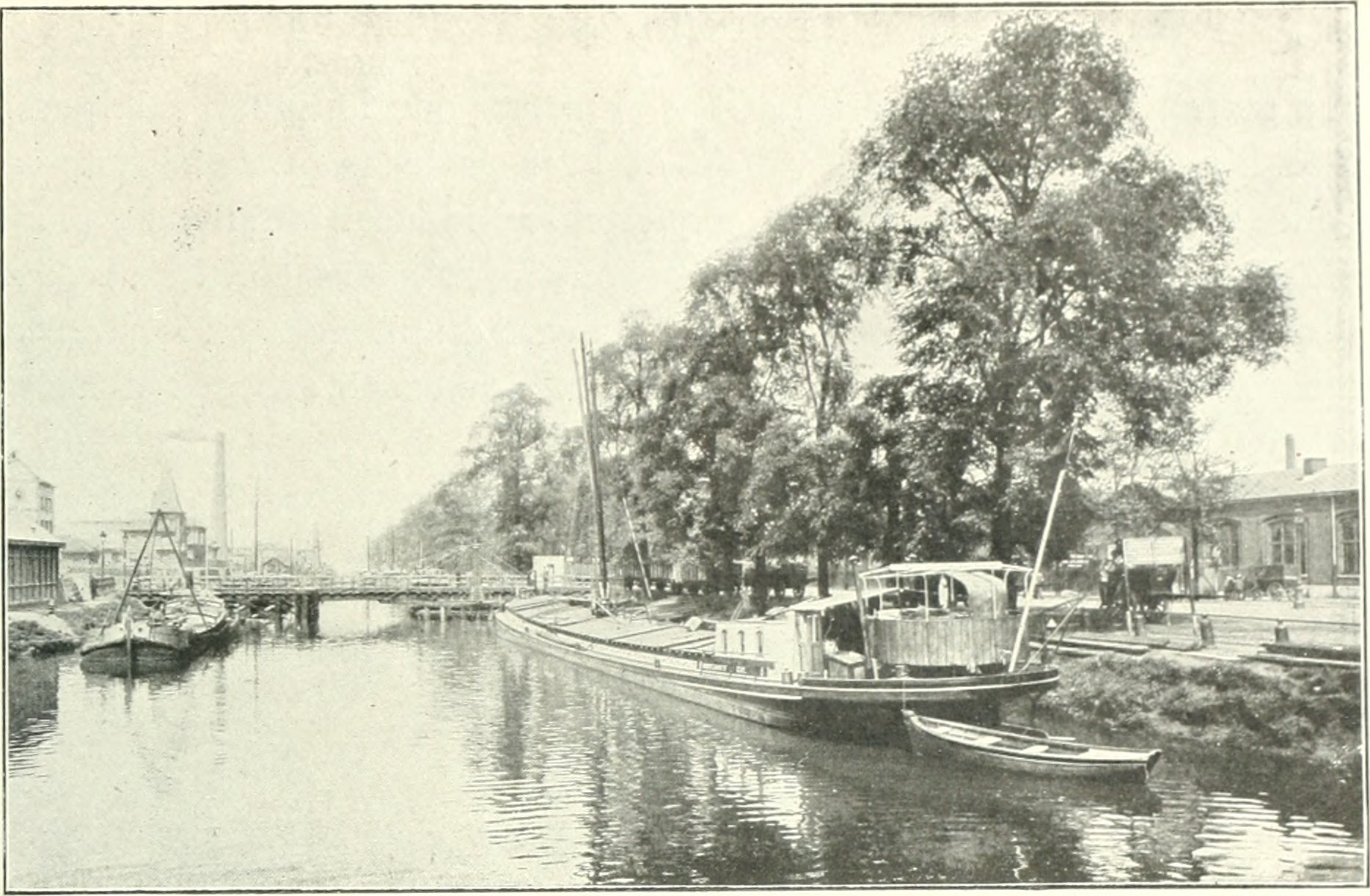 Title: Bruxelles Year: 1910 (1910s) Authors: Hymans, Henri, 1836-1912 Subjects: Art -- Belgium Brussels Brussels (Belgium) -- Description and travel Publisher: Paris H. Laurens Text Appearing Before Image: Larmure de tournoide Philippe IL 1^6 BRLXKLLKS mais à liiistoire en général, refaite par des éléments empruntés aux siè-cles disparus. Entre les objets les jikis curieux rasseml)lés à la lorte de liai, signa-lons, non loin de rciilrre. thms la ))reniière salle, liinmense pavois(Tassant du XV sièele, aperçu fréciueunnent dans les nnniatures, maisrarement dans la réalité. Le bouclier, de forme rectangulaire, abritaitcomplètement rassaillanl. visant )Kir uiu:* étroite ouverture triangulaireet observant lennemi par un judas pratiqué dans langle de ce trèsarchaïque instrument de défense. Text Appearing After Image: lIiHu .Neui\lein. Bruxelles maritime. Le canal de WiUebroeck. CHAPITRE XIV LE SUD-OUEST DE BRUXELLES Quartiers industriels. — Voyage par la ligne de ceinture. — Le panorama de Bruxelles.Le nouveau port. — Laeken. — Les « MaroUes ». —• Léglise de la Chapelle. La Porte de lîal constitue en fait la limite de partage de Bruxelles,vers le sud-ouest. Ici nous-pénétrons dans une ville en quelque sorte àpart, très active, très vivante, siège de nombreuses industries et à laquelleses usines et ses établissements commerciaux concourent à imprimer unephysionomie des plus caractéristiques. Sillonnée de pesants charrois auxrobustes attelages brabançons, types de chevaux introduits par Rubensdans ses monumentales compositions, on y voit, sous bien des rapports, lasurvivance dun passé déjà lointain. La langue même, arg-ot où se mêle leflamand et le français, dénommé le « marollien ».du c(uartier des MaroUes(ancien couvent des sœurs apostolines», traversé par